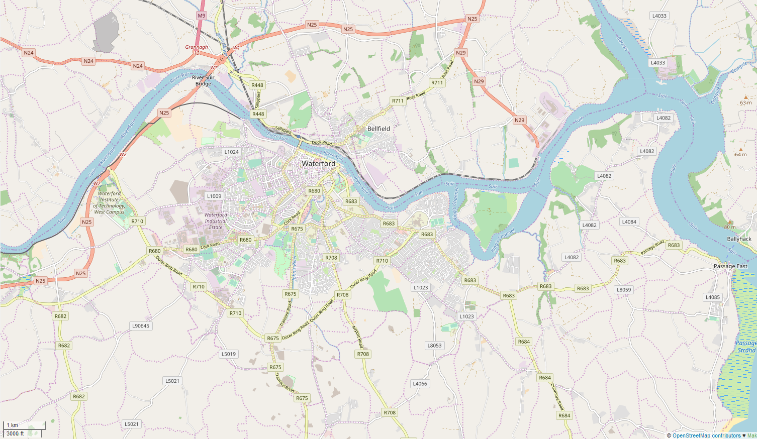 Map of Waterford This map may be incomplete, and may contain errors. Don't rely solely on it for navigation.